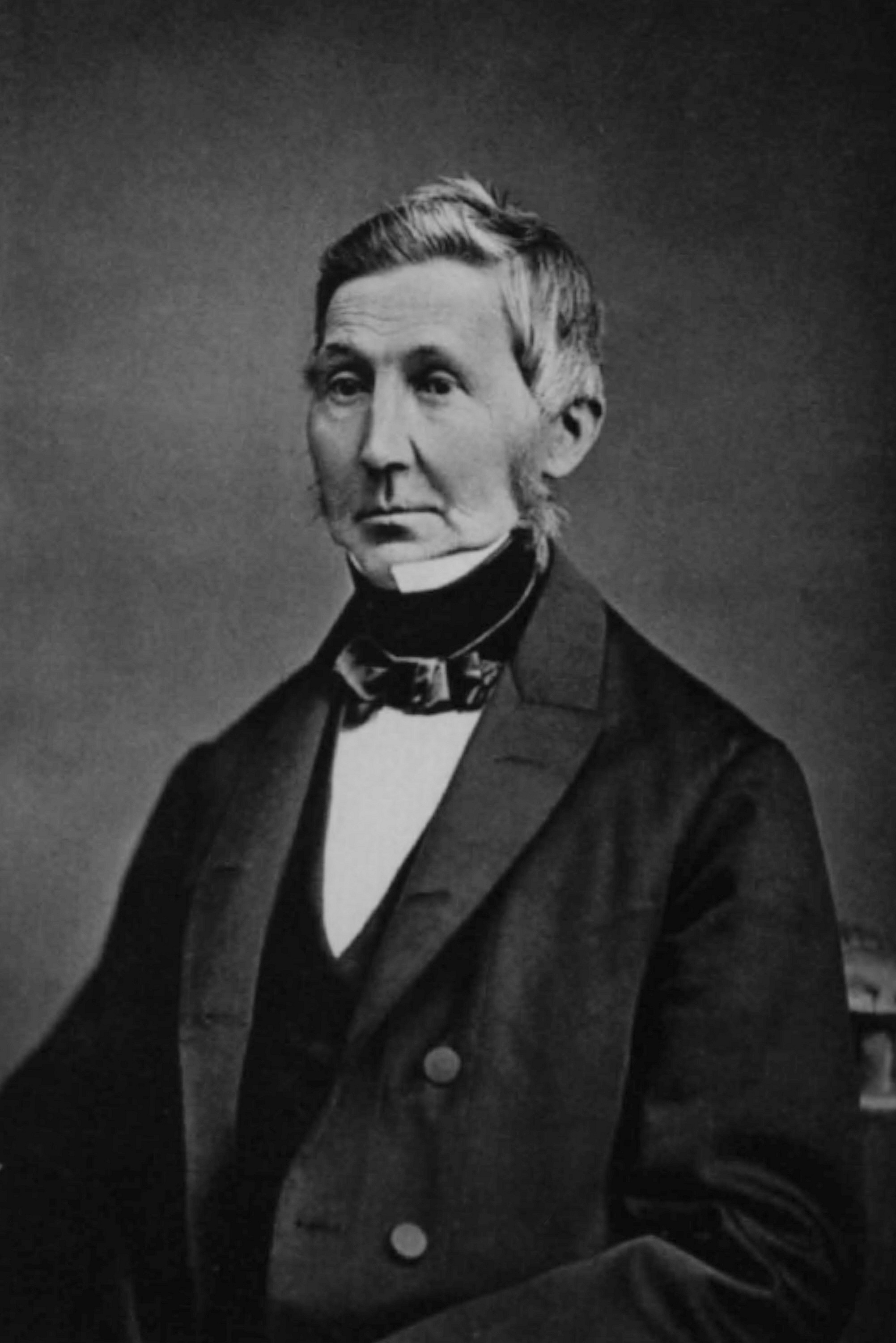 Carl Friedrich Wehrmann (* 1809; † 1898), German educator and historian